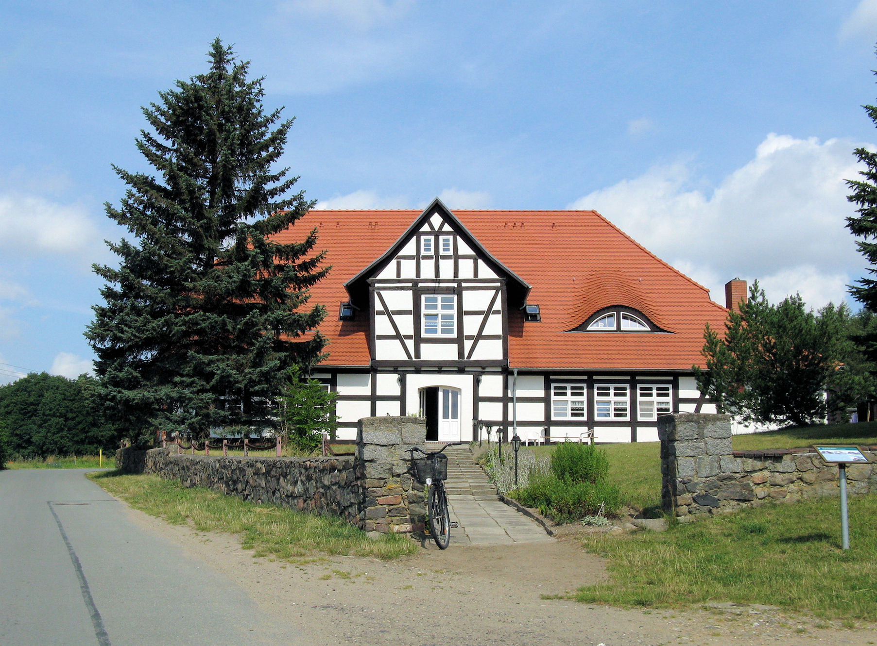 Former custom house in Serrahn, disctrict Güstrow, Mecklenburg-Vorpommern, Germany